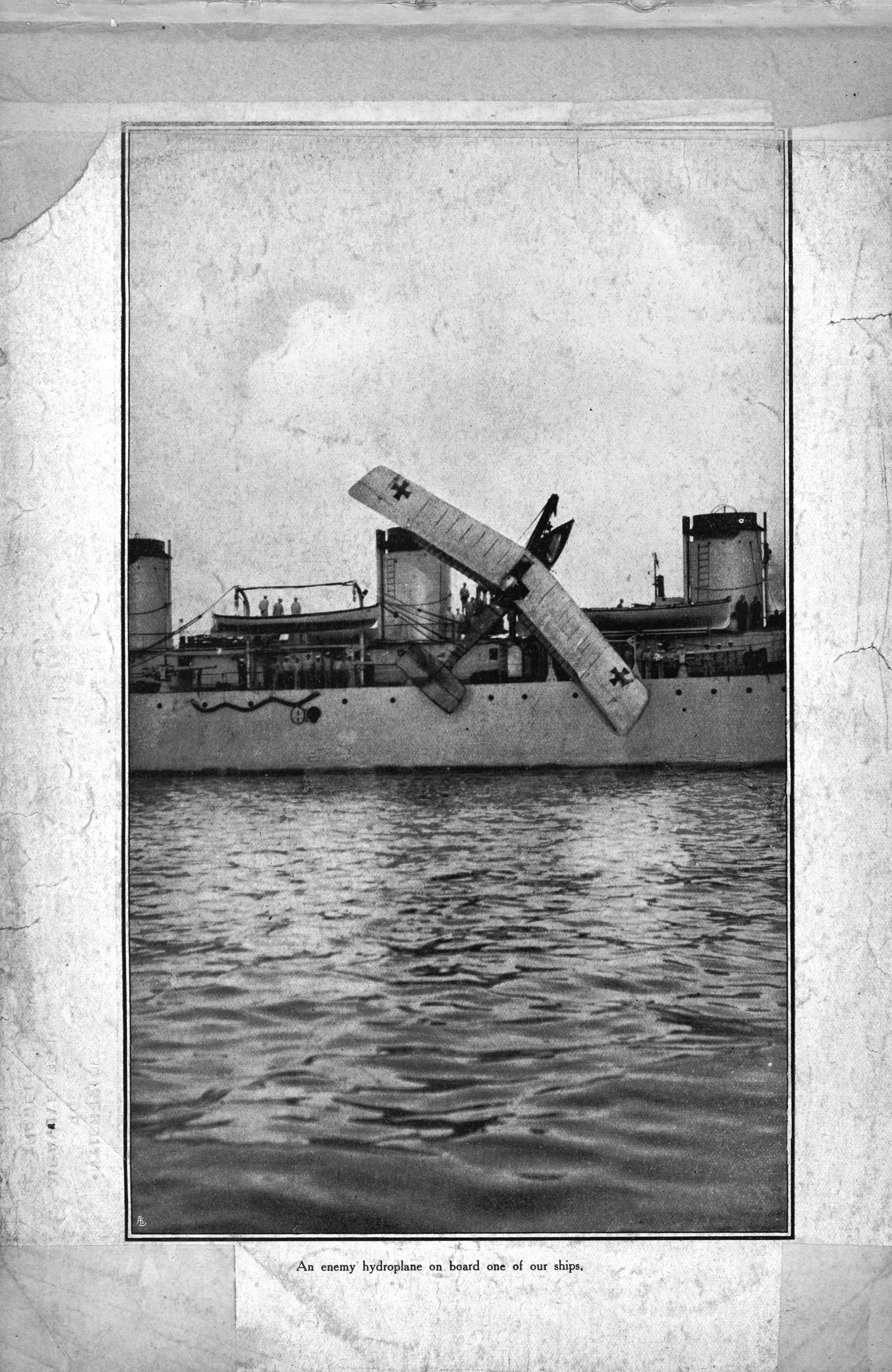 Title: The civil government at Grado Redenta Year: 1917 (1910s) Authors: Emilio Ferrando Subjects: Grado (Italy) - History Publisher: View Book Page: Book Viewer About This Book: Catalog Entry View All Images: All Images From Book Click here to view book online to see this illustration in context in a browseable online version of this book. Text Appearing Before Image: One of our submarines. - 186 - Text Appearing After Image: '